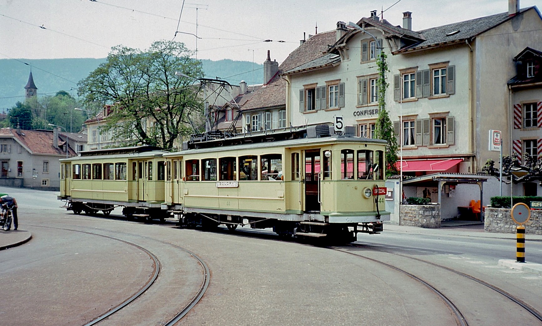 Neuchâtel tram 44 and a matching trailer from the 111–114 series at Boudry terminus, the outer end of line 5, in 1979. Car 44 was one of seven double-ended (bi-directional), double-truck trams built for the Neuchâtel tram system in 1902 by SWS, numbered 41–47. SWS also built four matching trailers. The last active units were retired in 1981, and all were preserved, with car 44 and trailer 111 (which may or may not be the trailer in this photo) going to the AMTUIR museum, in Paris.